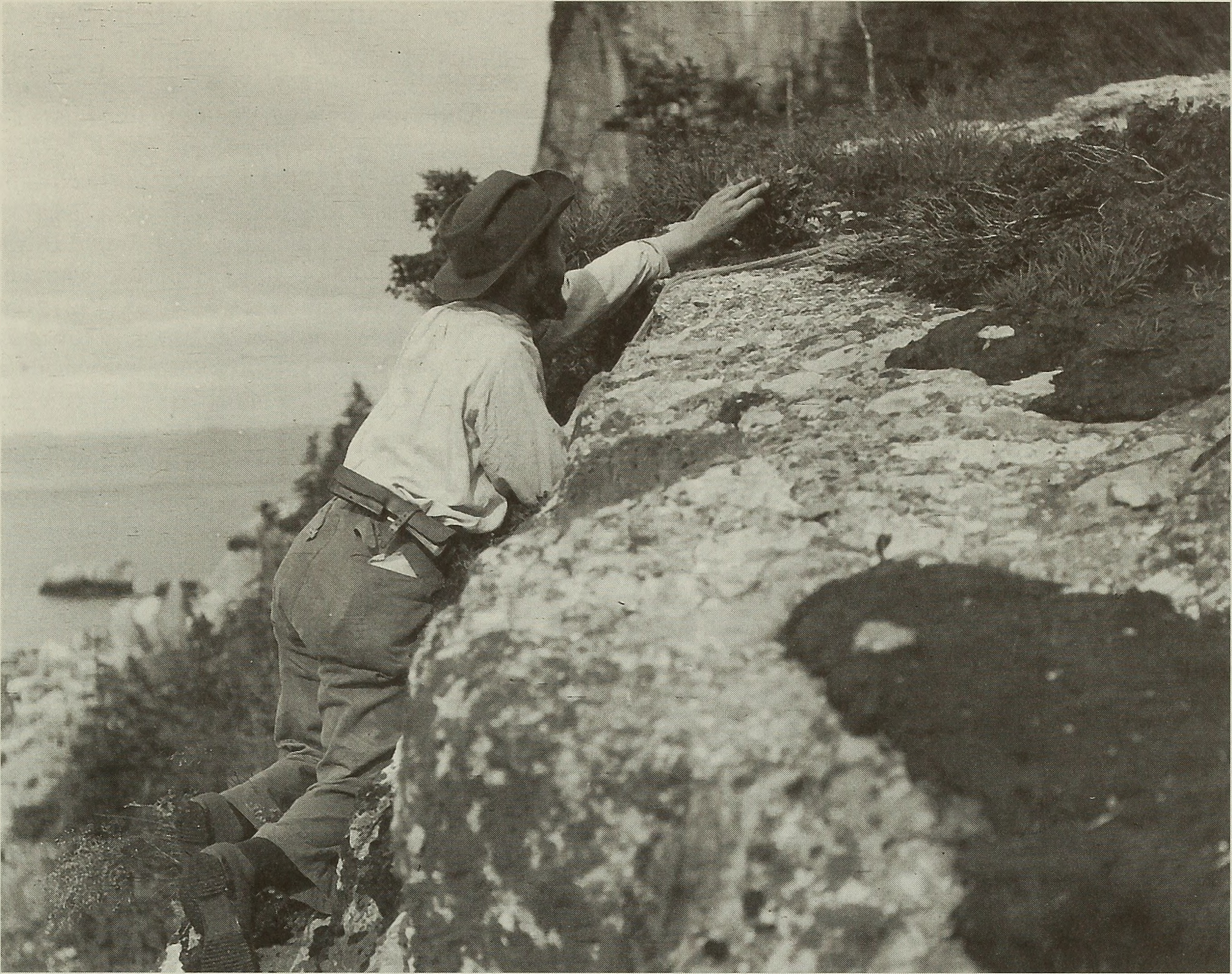 Merritt Lyndon Fernald collecting Draba aurea Vahl s. lat. on Cap Enrage, Co. Rimouski, Quebec, 1905 (photograph by J. Franklin Collins; courtesy of the Botany Libraries of Harvard University) Title: The Canadian field-naturalist Identifier: canadianfieldn1091995otta Year: 1995 Authors: Ottawa Field-Naturalists' Club Subjects: Natural history Publisher: Ottawa, Ottawa Field-Naturalists' Club Contributing Library: Smithsonian Libraries Digitizing Sponsor: Biodiversity Heritage Library Text Appearing Before Image: 1995 Pringle: Exploration of the Flora of Canada 325 Text Appearing After Image: Merritt Lyndon Fernald collecting Draba aurea Vahl s. lat. on Cap Enrage, Co. Rimouski, Quebec, 1905 (photograph by J. Franklin Collins; courtesy of the Botany Libraries of Harvard University).